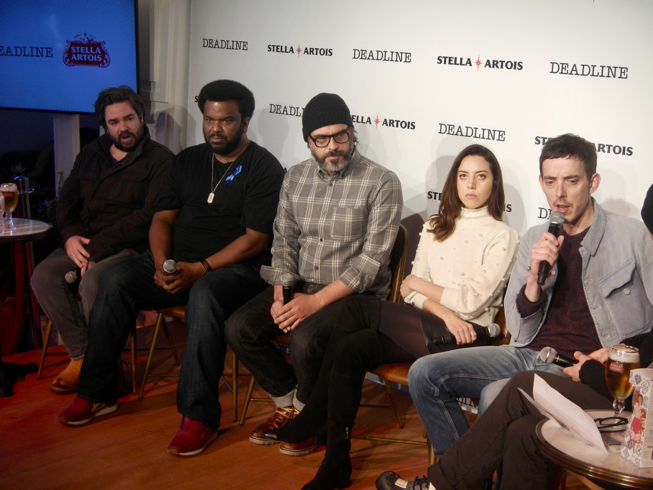 An Evening with Beverly Luff Linn, Sundance 2018, Park City UT